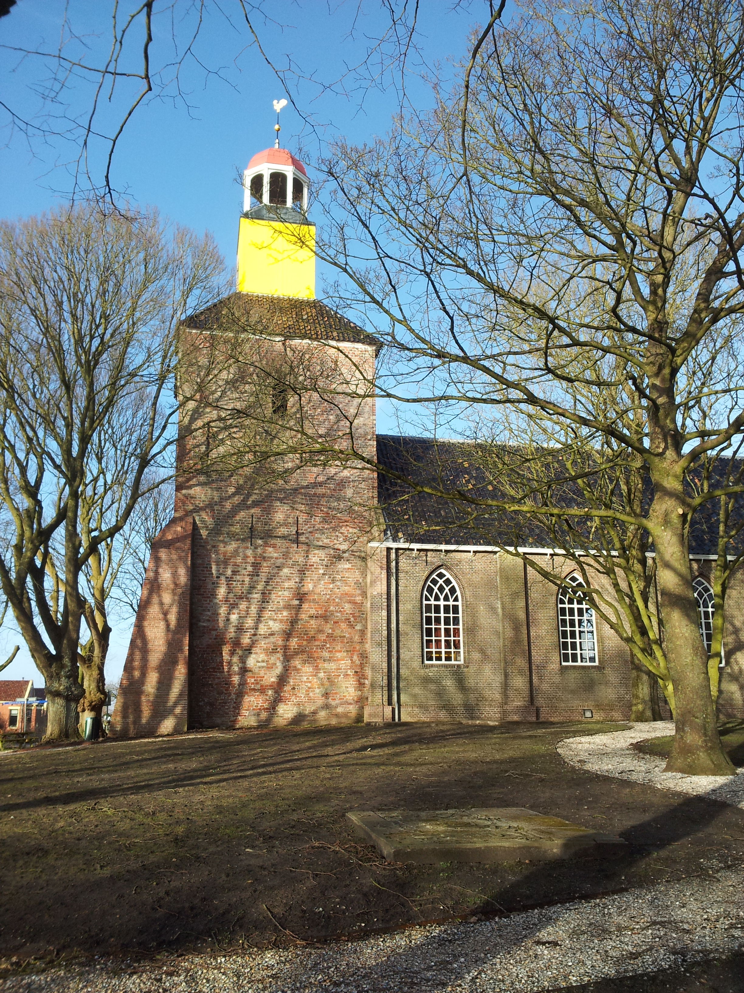 Church of Hornhuizen